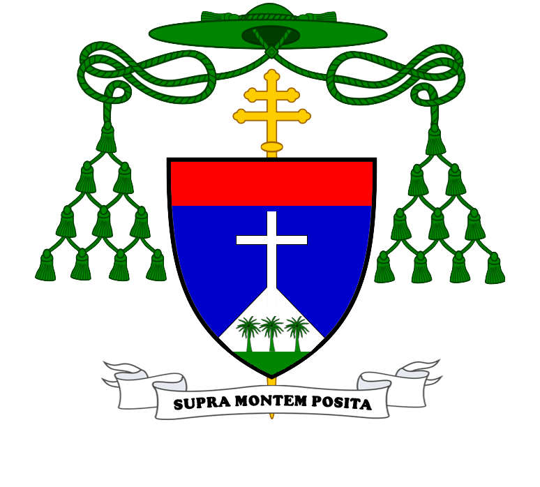 Monsignor Shield Tavella.